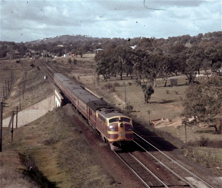 4202 runs "wrong road" out of Yass Junction with the Intercapital Daylight Express